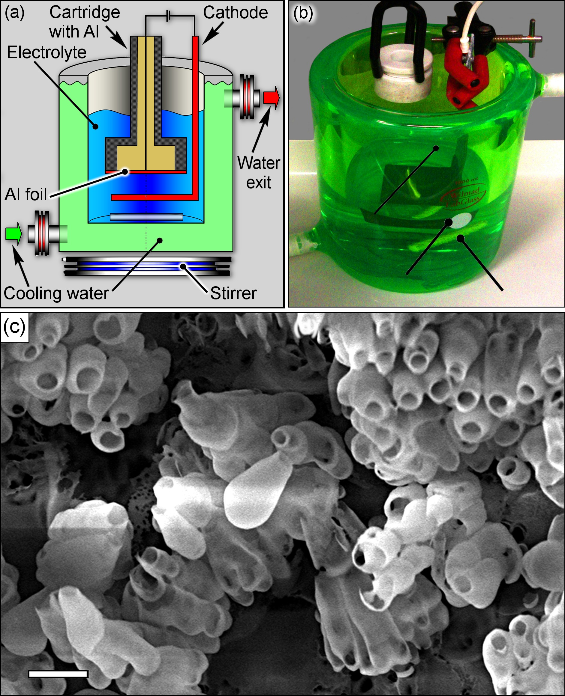 Experimental setup: (a) schematic and (b) photograph. (c) Representative SEM image of the free-standing cluster of alumina nanobottles after etching in phosphoric acid. The scale bar is 500 nm.